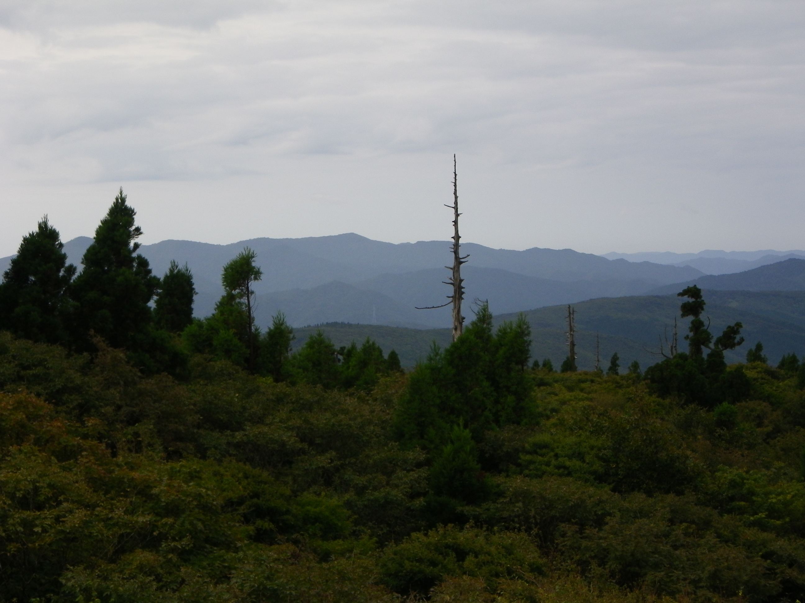 Mt.Jakuchi (Jakuchi-san) as seen from the NNW. Taken from Mount Kyurakan.